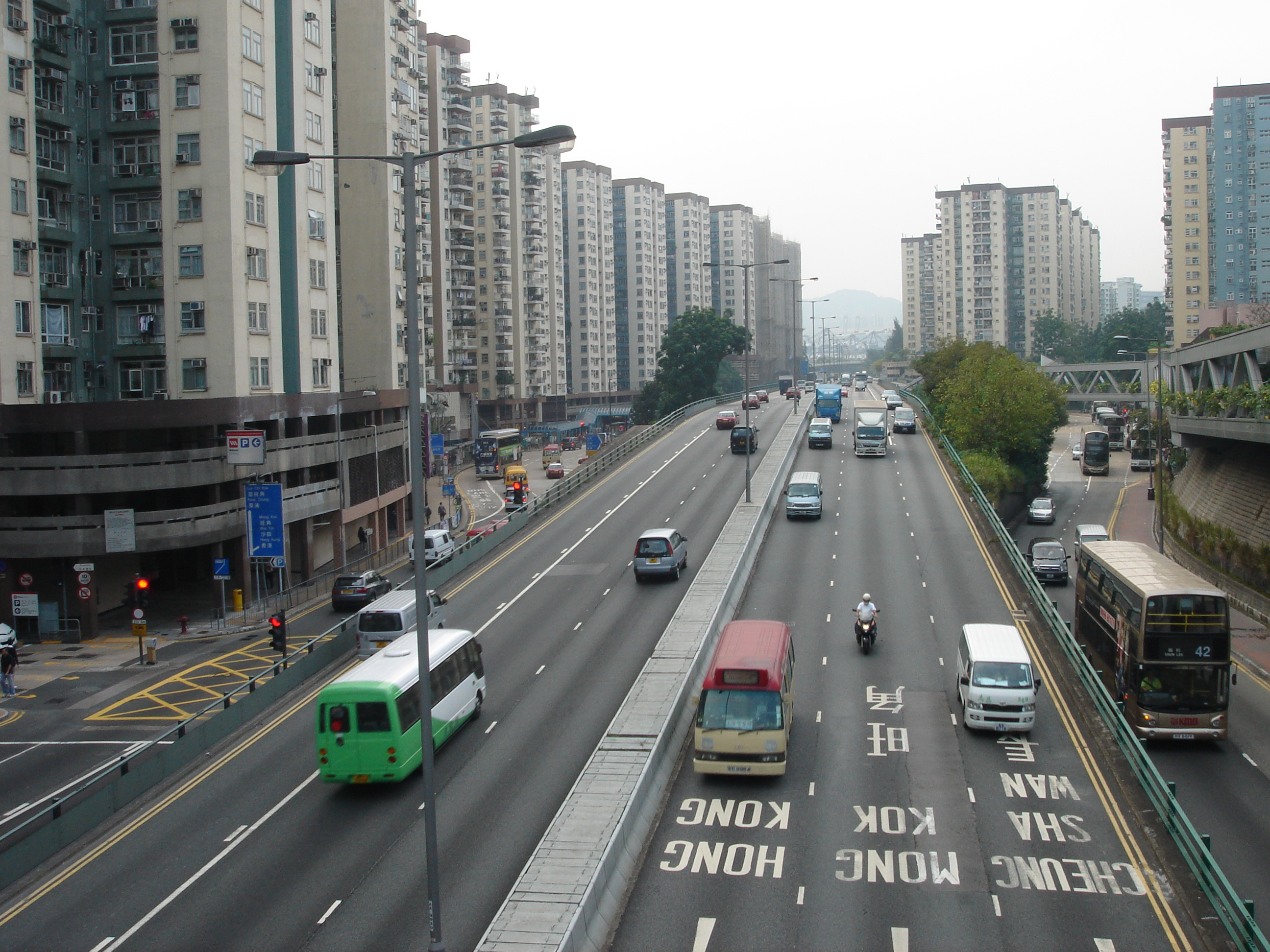 Lai Chi Kok Bridge, Kwai Chung Road, Mei Foo, Kowloon, Hong Kong 中文（香港）: 香港九龍美孚葵涌道荔枝角大橋